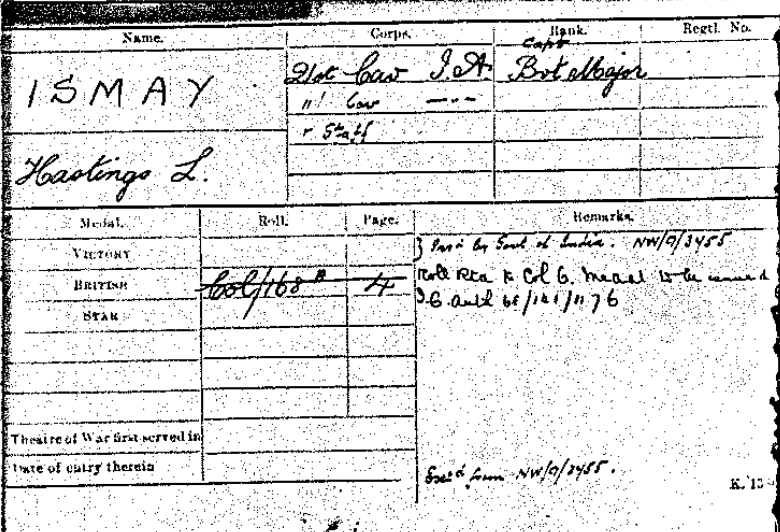 Medal card of Hastings Ismay